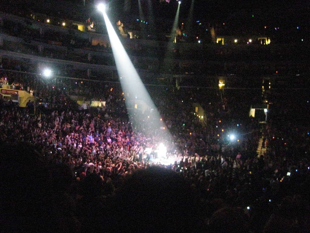 Taylor Swift during a Fearless Tour concert in Los Angeles, California.